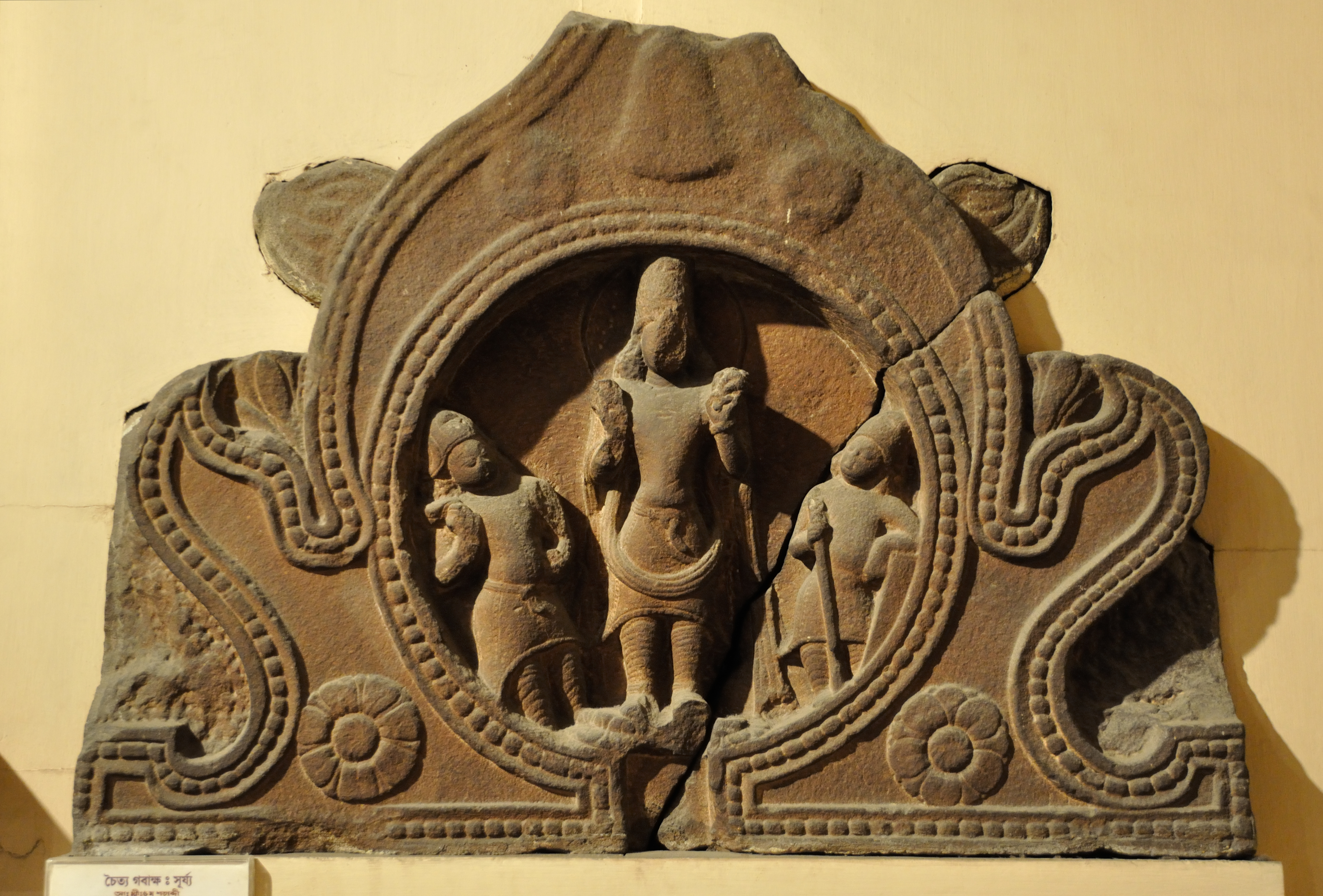 Accession number: NS 4957/A25058